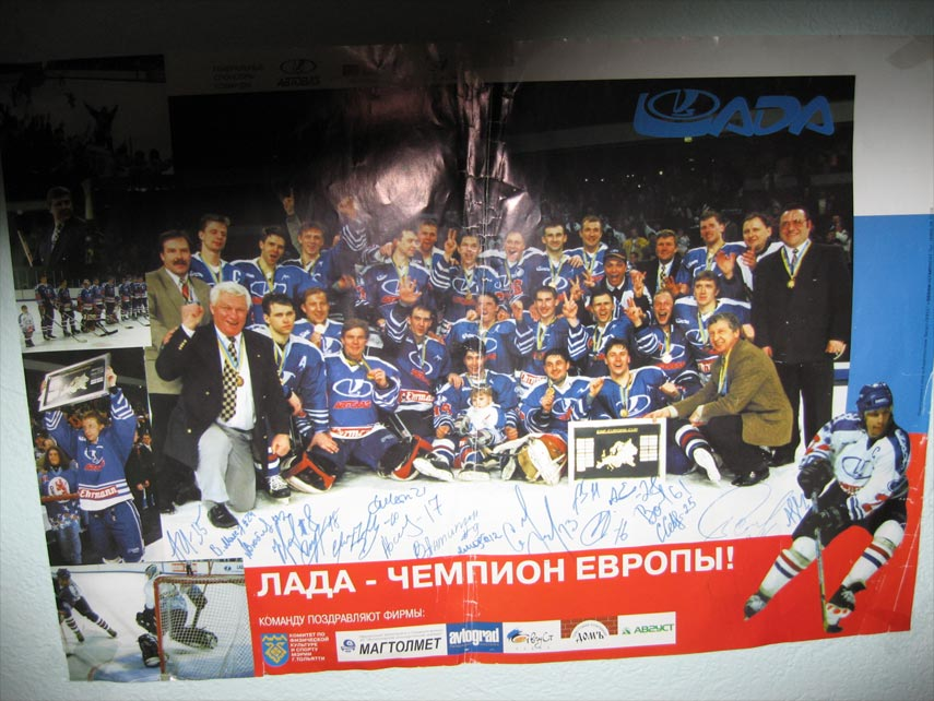 A photo made by myself.